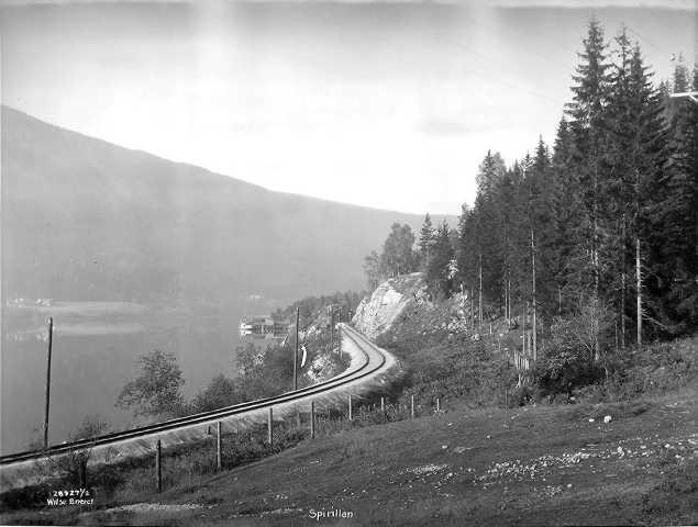 Sperilbanen railway near Sperillen, Ringerike, Norway.